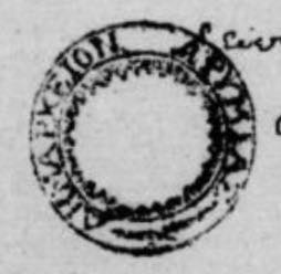 Σφραγίδα του έτους 1839